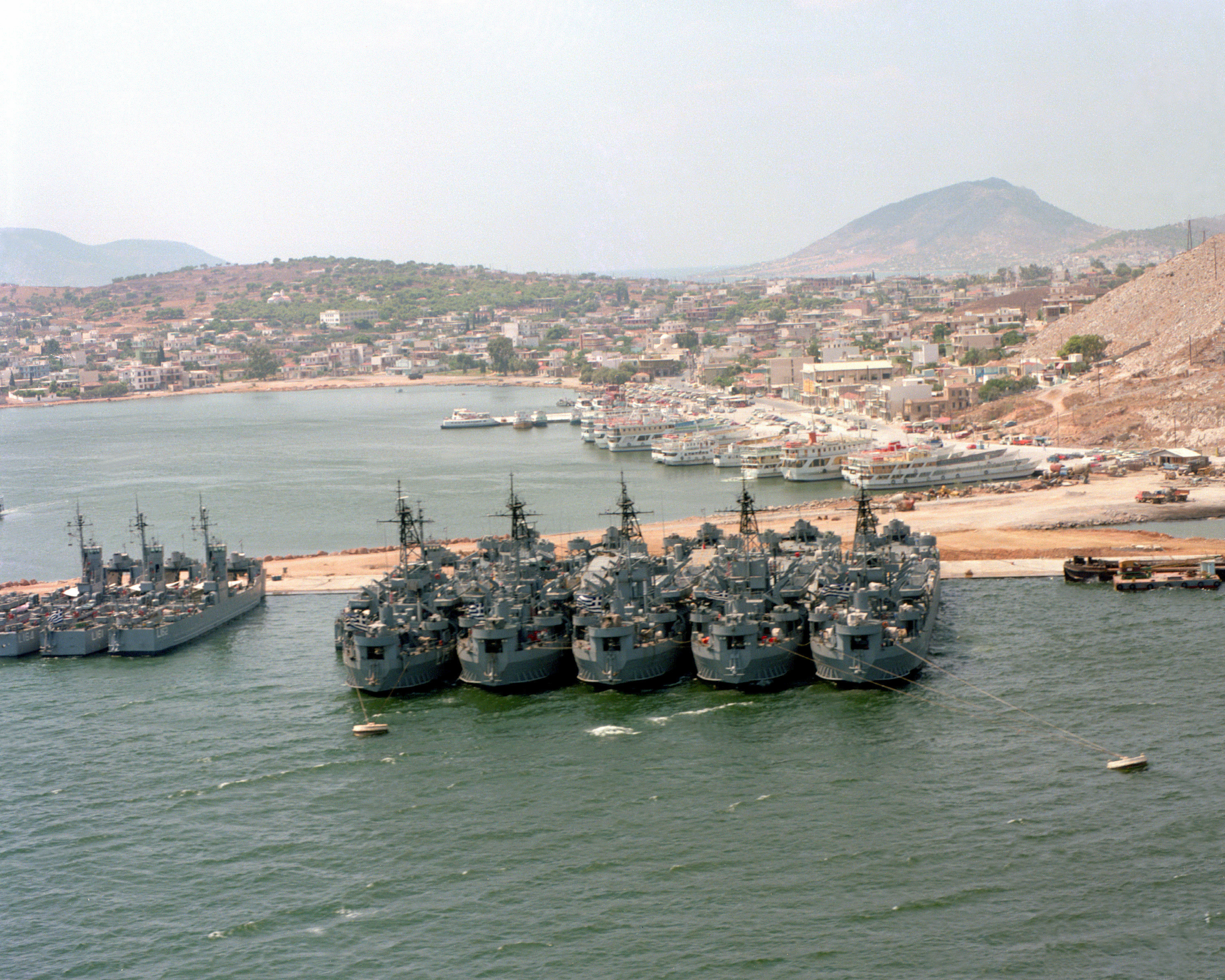 View of the Greek Salamis Naval Base in 1979. Visible the five former U.S. Navy tank landing ships, Ikaria (ex LST-1086), Kriti (LST-1076), Lesbos (LST-389), Rhodos (LST-391), Syros (LST-325), and three LSMs.